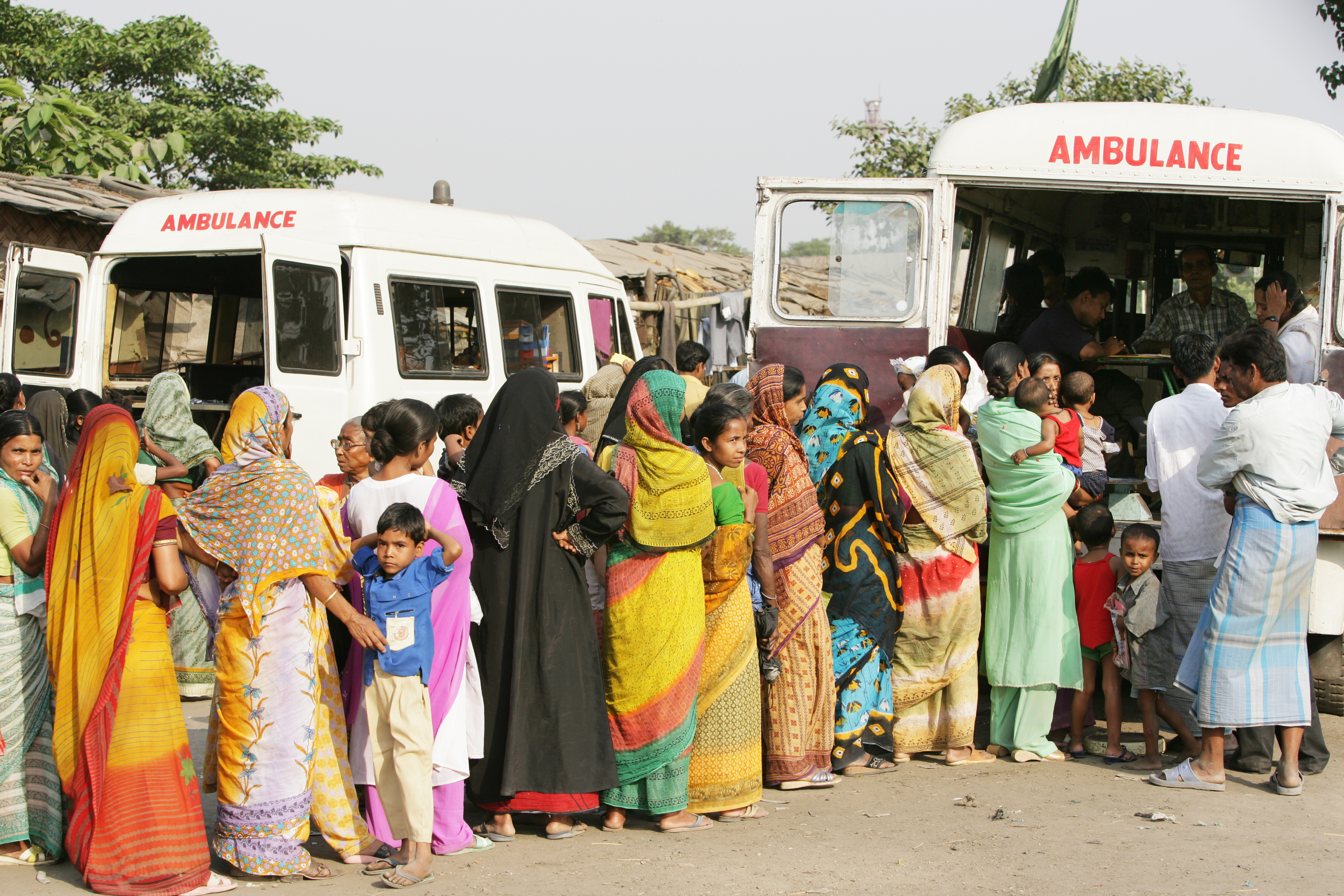 "Ärzte für die Dritte Welt - German Doctors e.V." - Project: India Ambulance in Kolkata, India